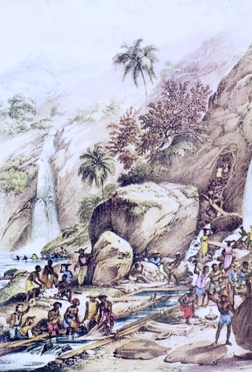 Gold mining near Itacolomi montain